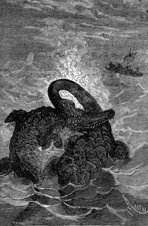 An ilustration from the novel "Journey to the Center of the Earth" by Jules Verne painted by Édouard Riou.